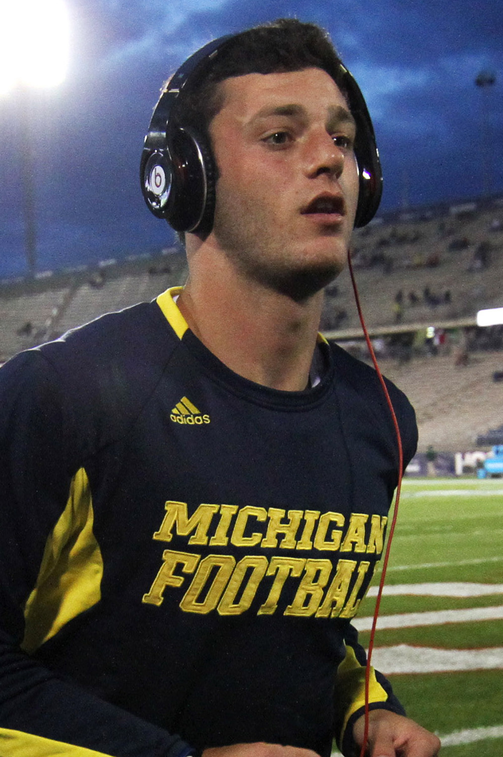 Shane Morris, Michigan Wolverines quarterback (Adam Glanzman)